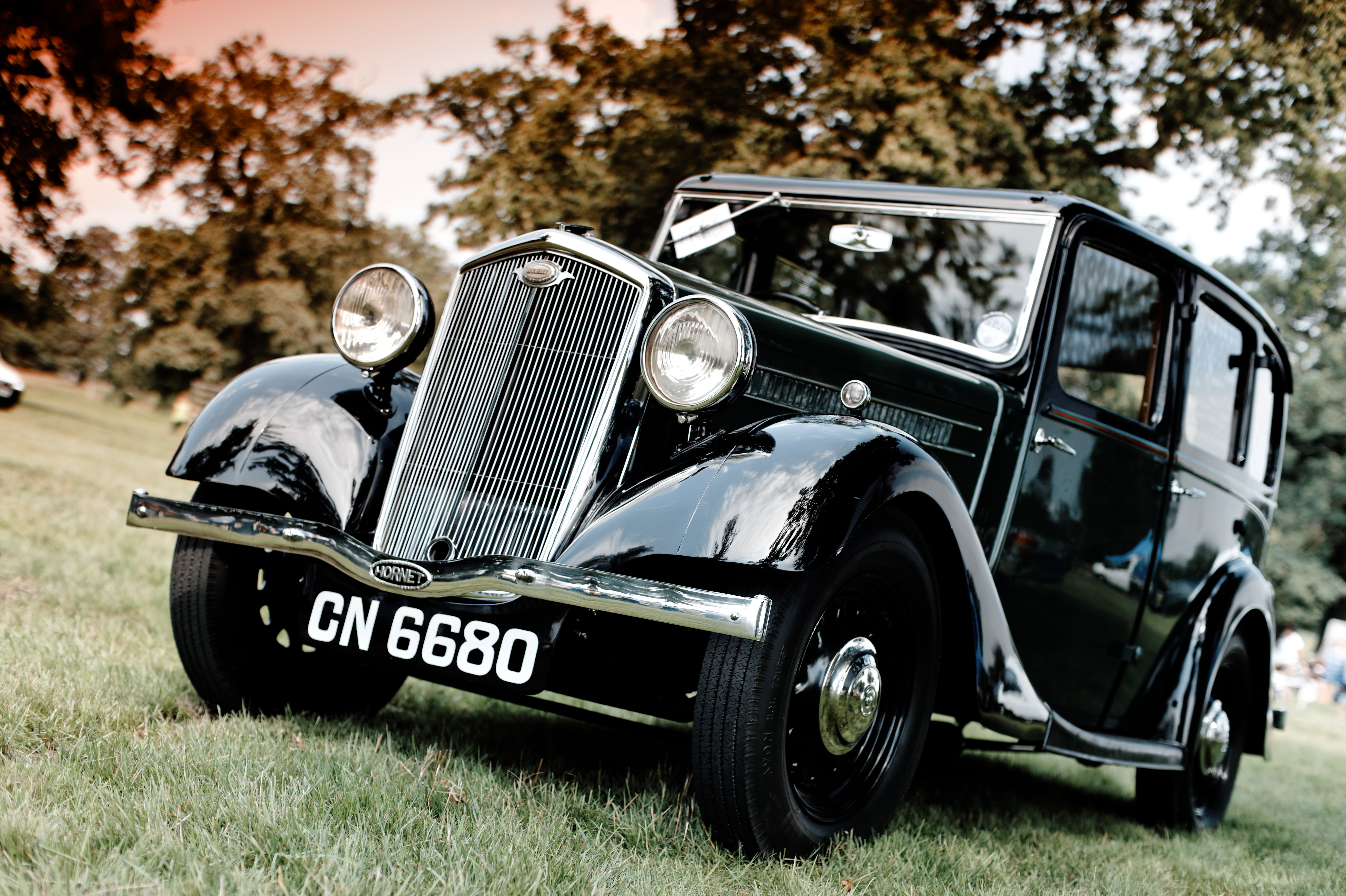 Wolseley Hornet 1935 (DVLA) first registered 1 May 1935, 1631cc